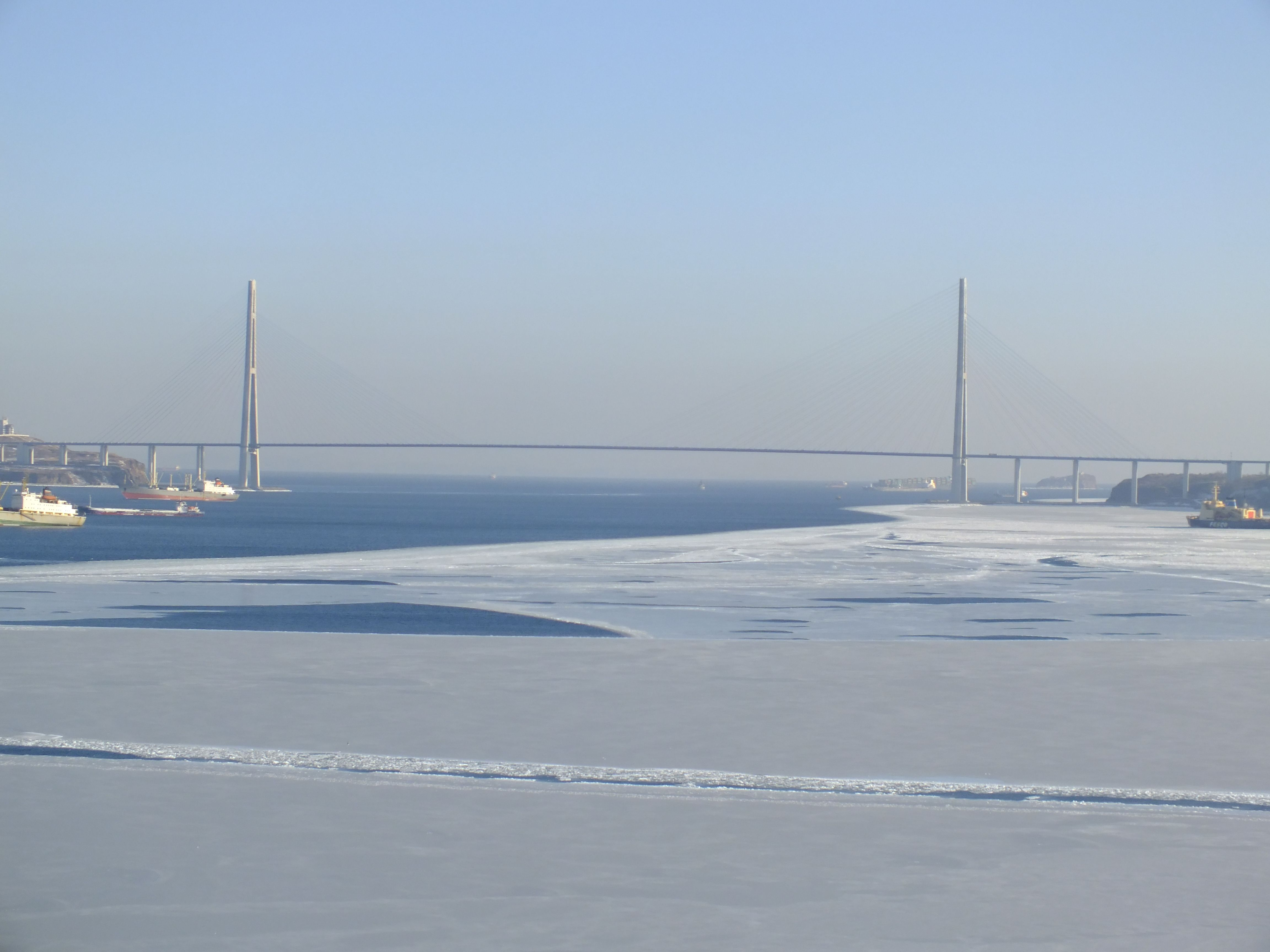 Eastern Bosphorus